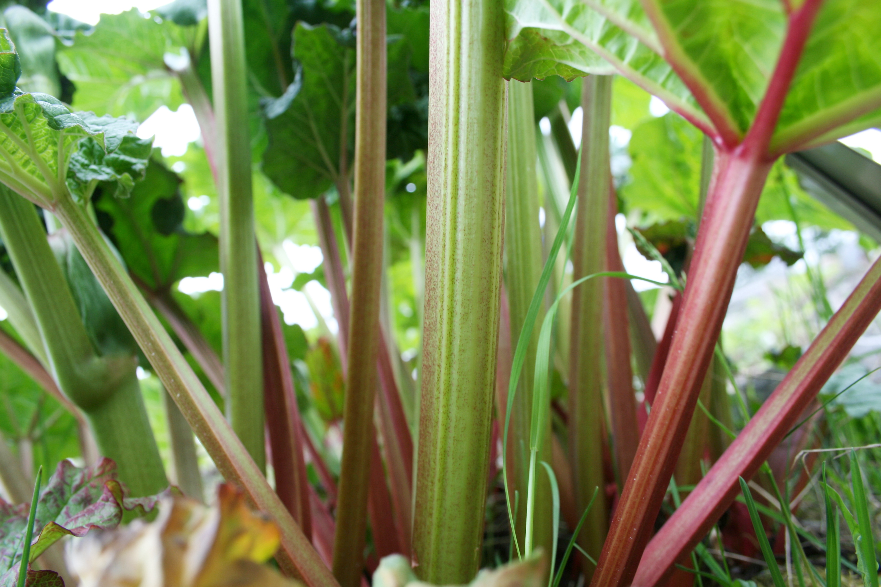 Stalks of Rheum australe. Oulu University Botanical Gardens, Finland.